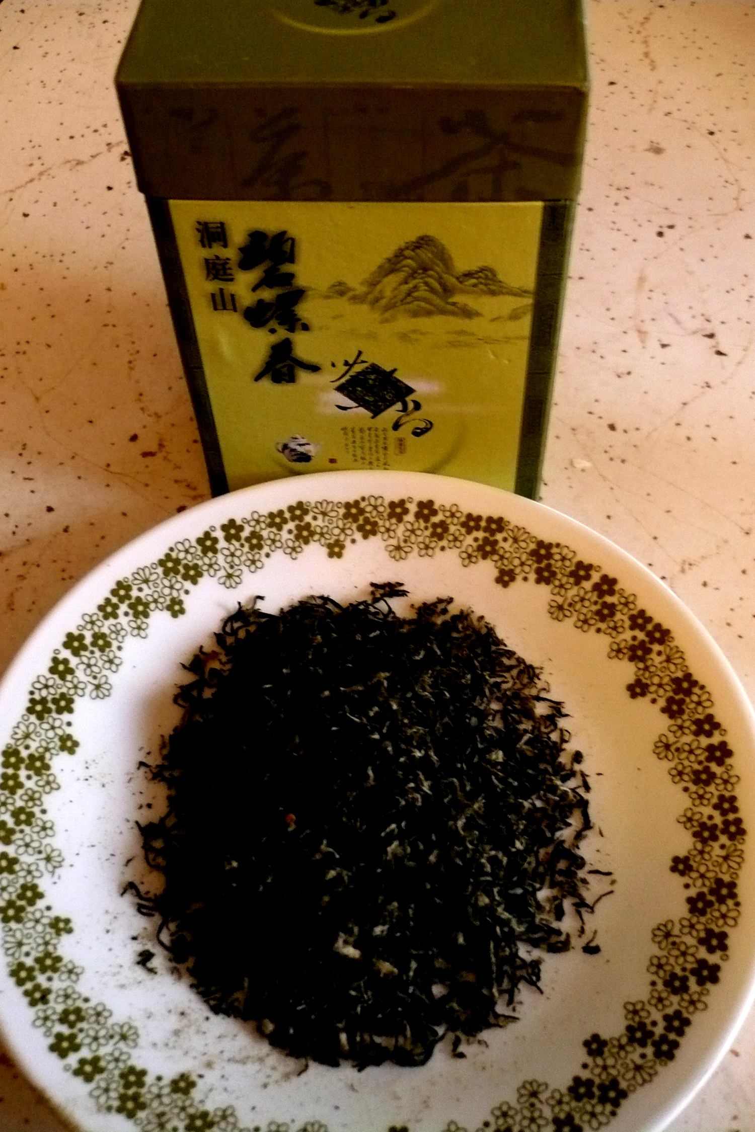 Biluochun green tea from Mount Dongting, Suzhou